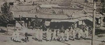 105 persons Incidents of Korea in 1911